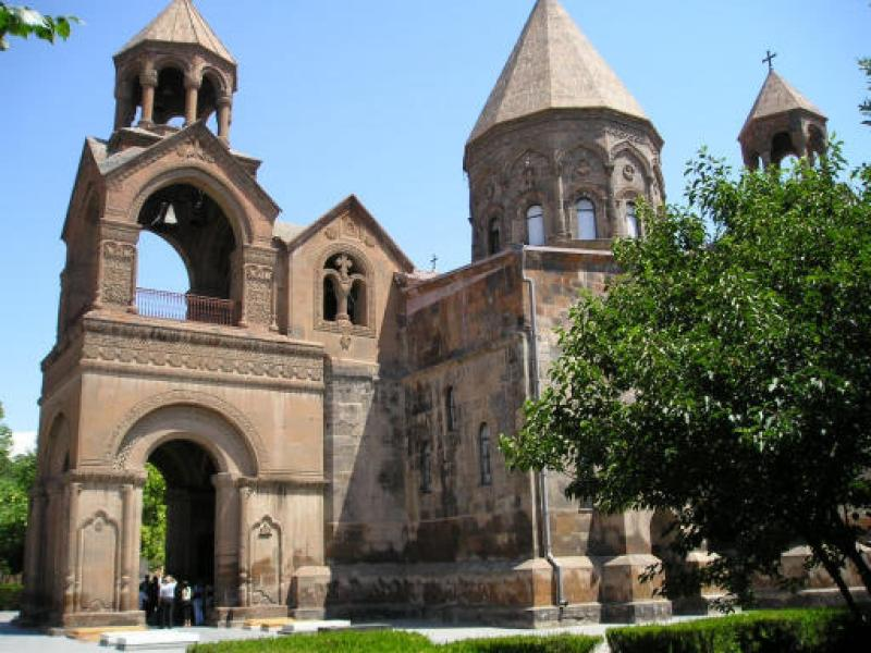 The cathedral in Echmiadzin, ArmeniaSlovenščina: Katedrala v Ečmiadzinu (Armenija)